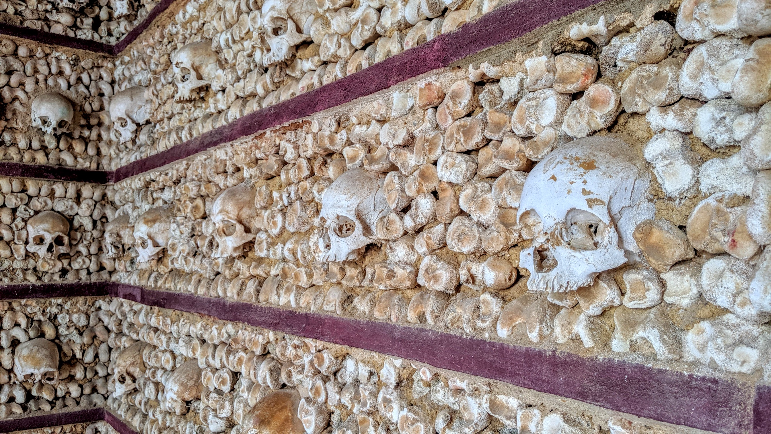 Capela dos Ossos (chapel of bones) in Faro, closeup of a wall